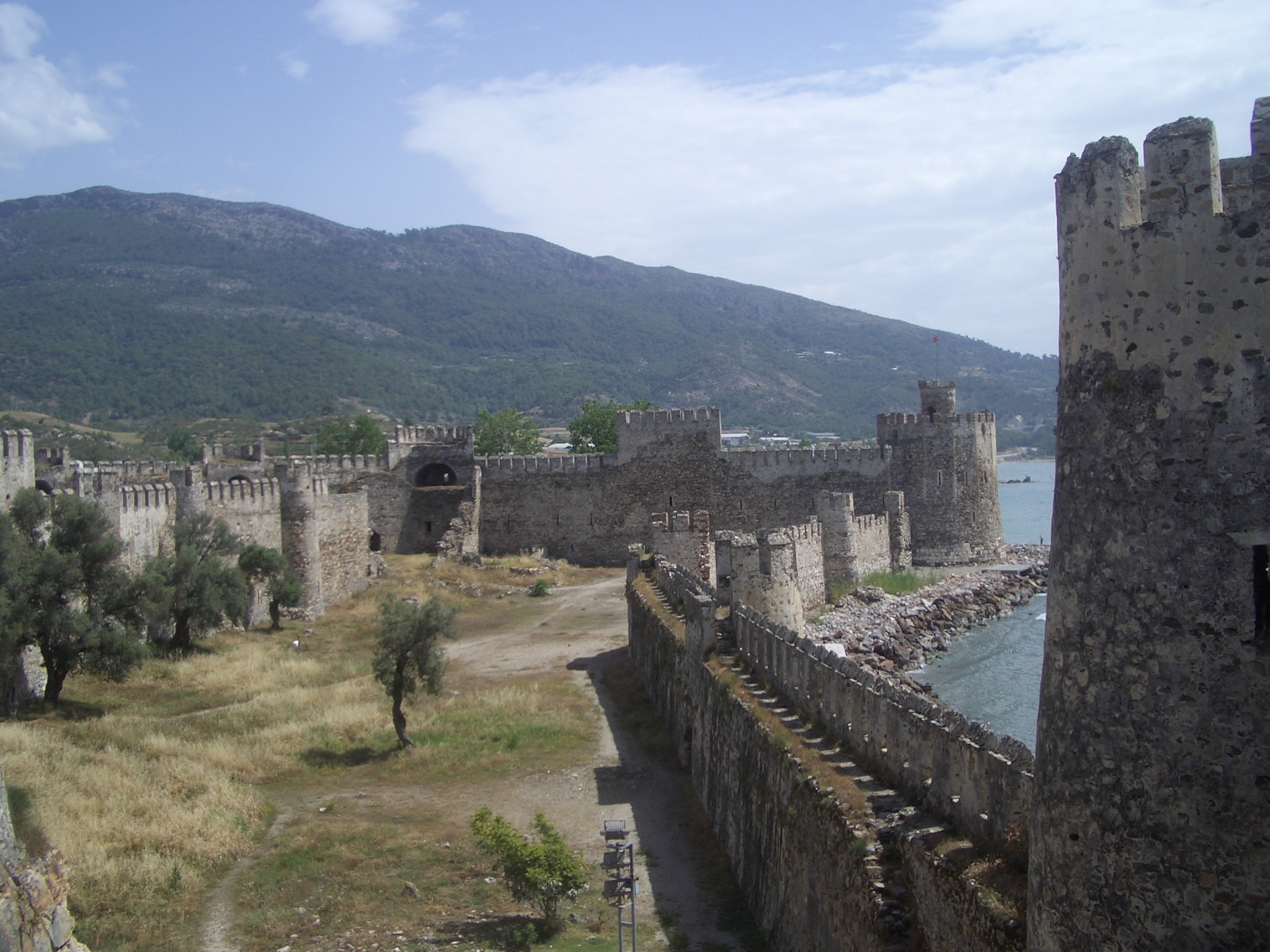 Mamure, the old Crusader castle in Anamur, Turkey.